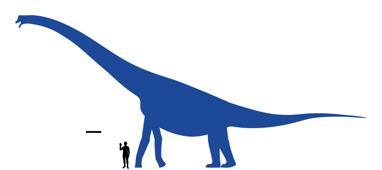 The size of Brachiosaurus altithorax. Silhouette by Slate Weasel. Length: 23 metres Mass: 35-40 tonnes